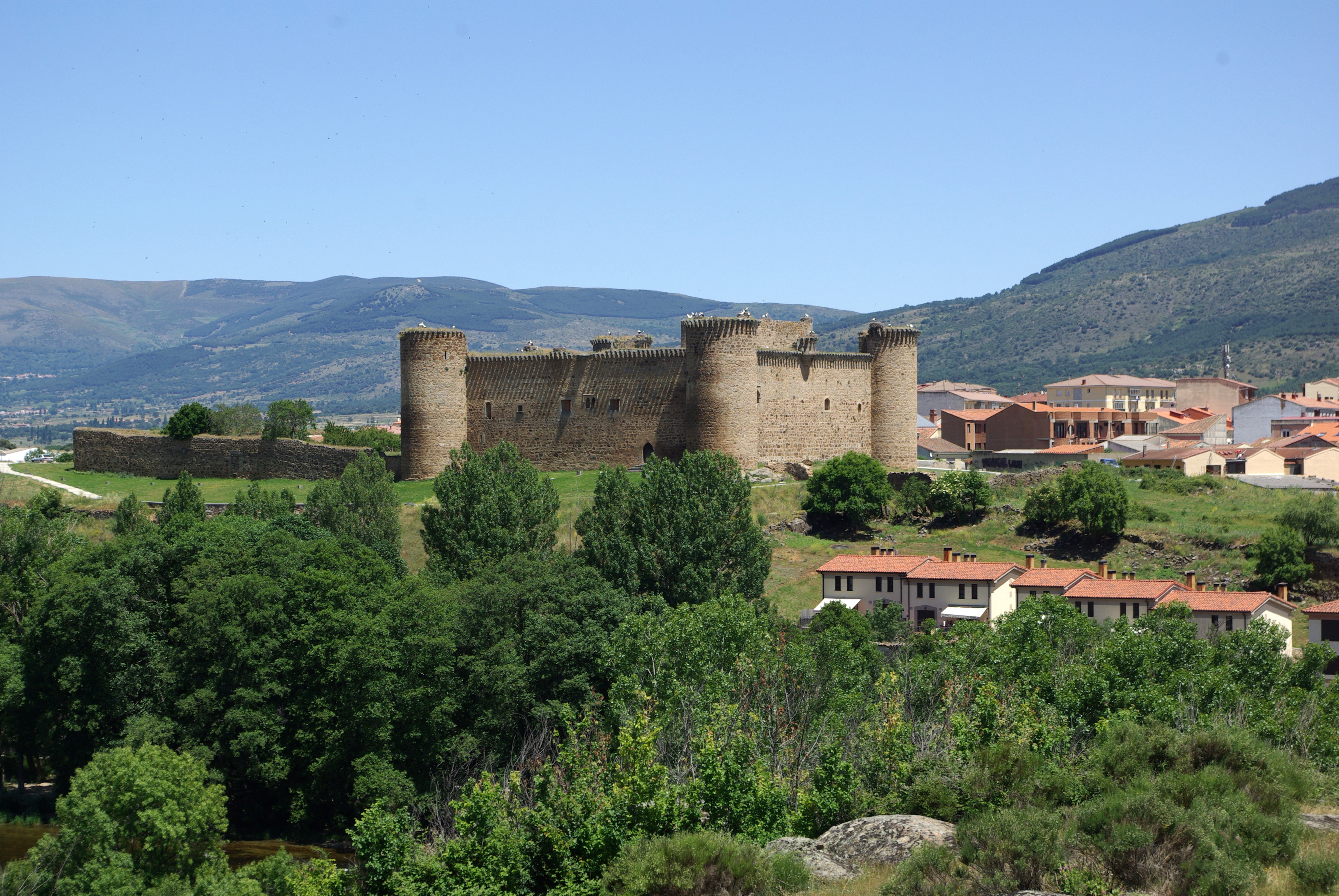 Castle of El Barco de Ávila (Ávila, Spain)